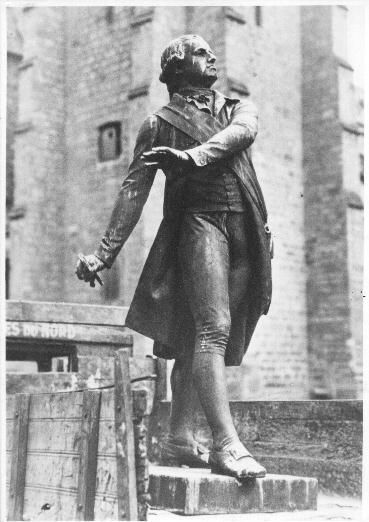 En 1942, dernière photographie de la statue enlevée par l'armée allemande